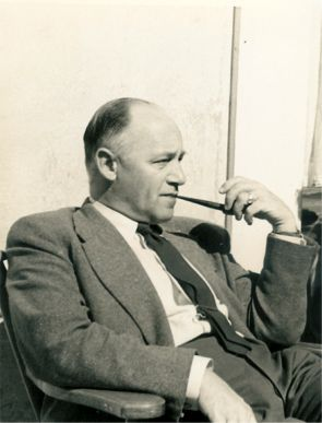 Adrianus Wijnandus Lazonder, Hervormd predikant